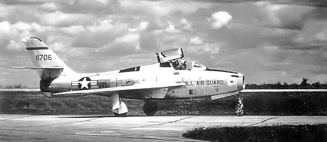 170th Fighter-Bomber Squadron Republic F-84F-25-RE Thunderstreak 51-1706 in natural aluminum finish, about 1959